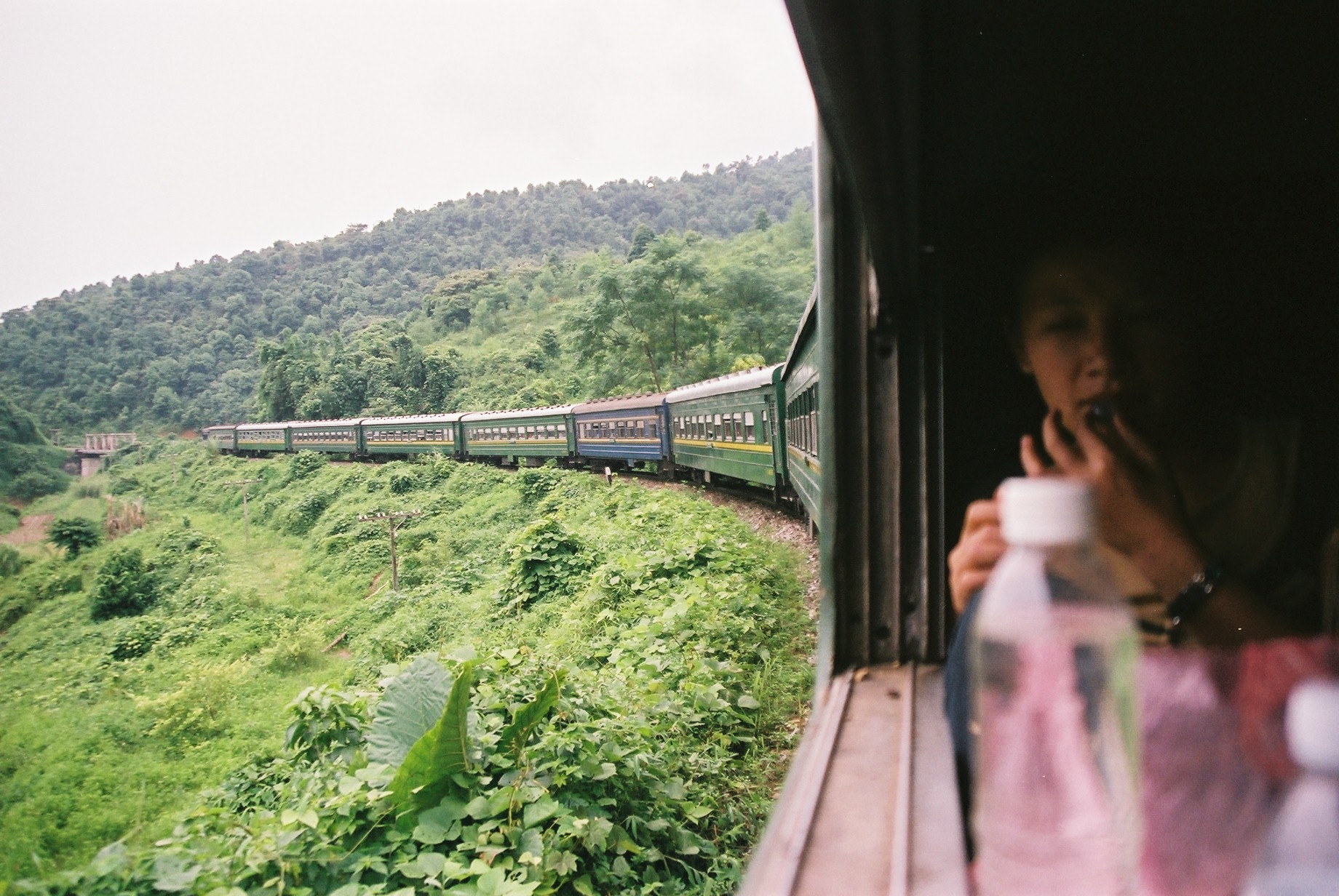 The Reunification Express travelling through Vietnam.